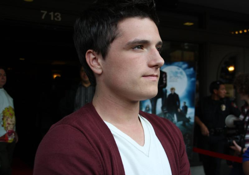 Josh Hutcherson of CIRQUE DU FREAK: VAMPIRE'S ASSISTANT